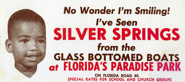 Promotional ad for Paradise Park, Florida, a park for colored during the racial segregation period.